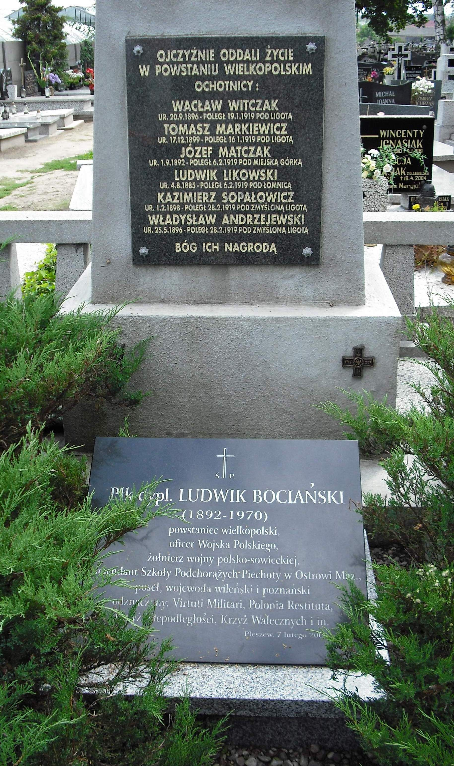 Bocianski's final resting place, Pleszew, Poland